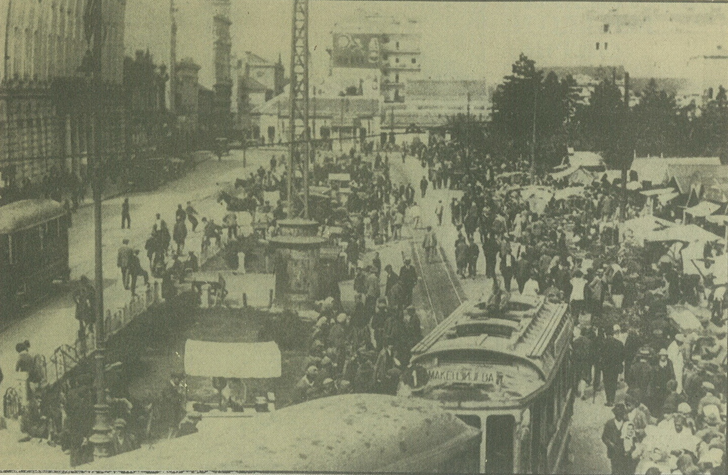 Marketplace in Belgrade, the oldest marketplace in Belgrade, Velika pijaca, photo from 1926. Srpski (latinica): Fotografija iiz 1926. godine, Velika pijaca u Beogradu na današnjem Studentskom trgu, u Studentskom parku.